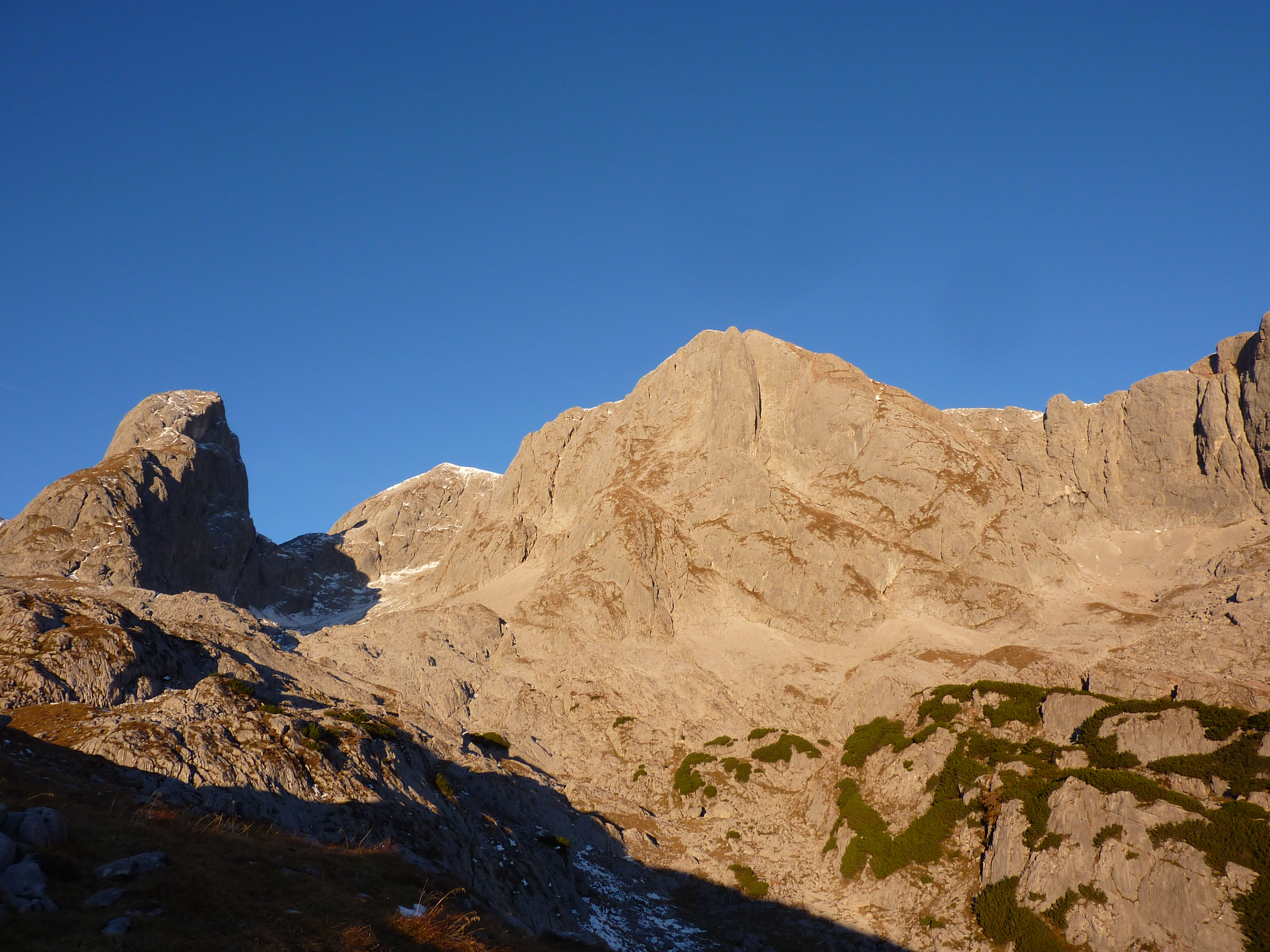 Two Summits of the eastern part of the Hochkoenig massif, picture taken from the Ochsenriedl: on the left the Torsaeule (2,588 m AA) and in the middle the Schoberkoepfe with the Gamskar in between. The butte in front of the Eastern Schoberkopf (2,666 m AA) is called Teufelskirche (alias Teufelskirchl, 2,523 m AA).